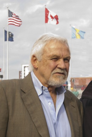 Bernie parent on December 31, 2011, just before heading to the locker room to dress for his appearance in the 2012 NHL Winter Classic Alumni Game at Citizens Bank Park in Philadelphia, PA. (Photograph by uploader)